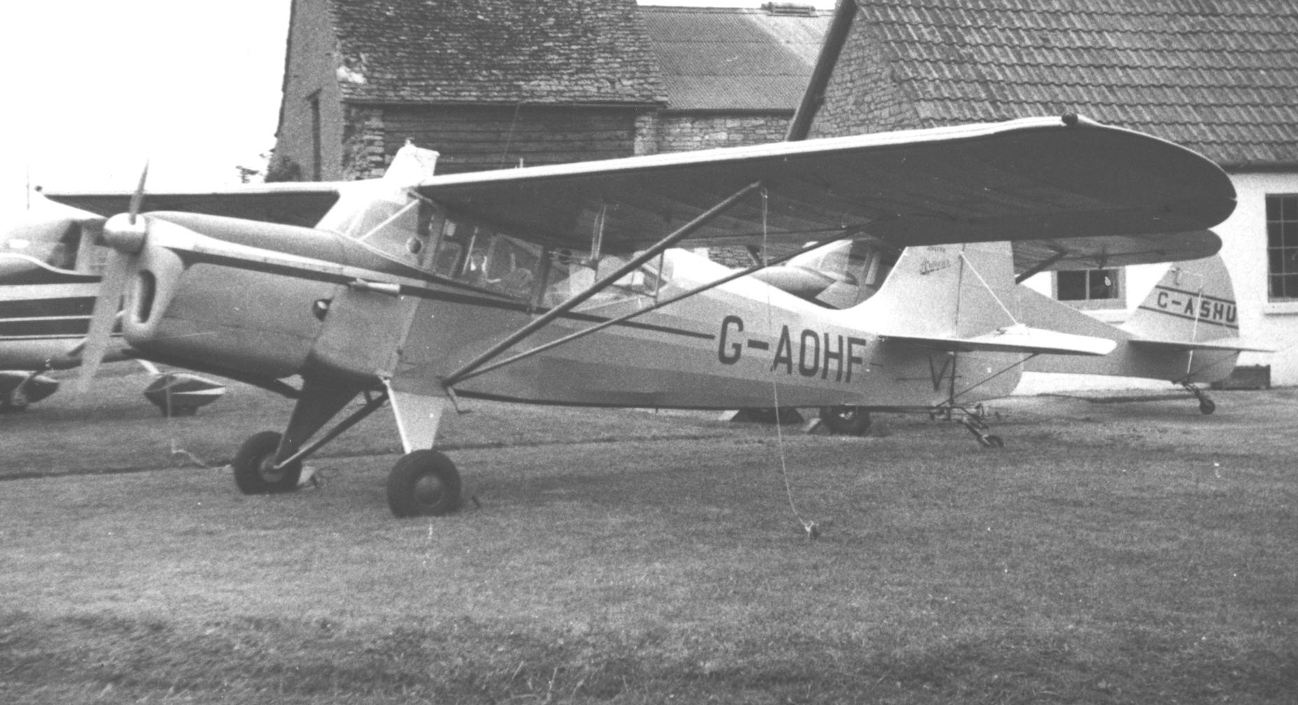 Auster J/5P Autocar G-AOHF at Oxford Airport, Kidlington, Oxfordshire